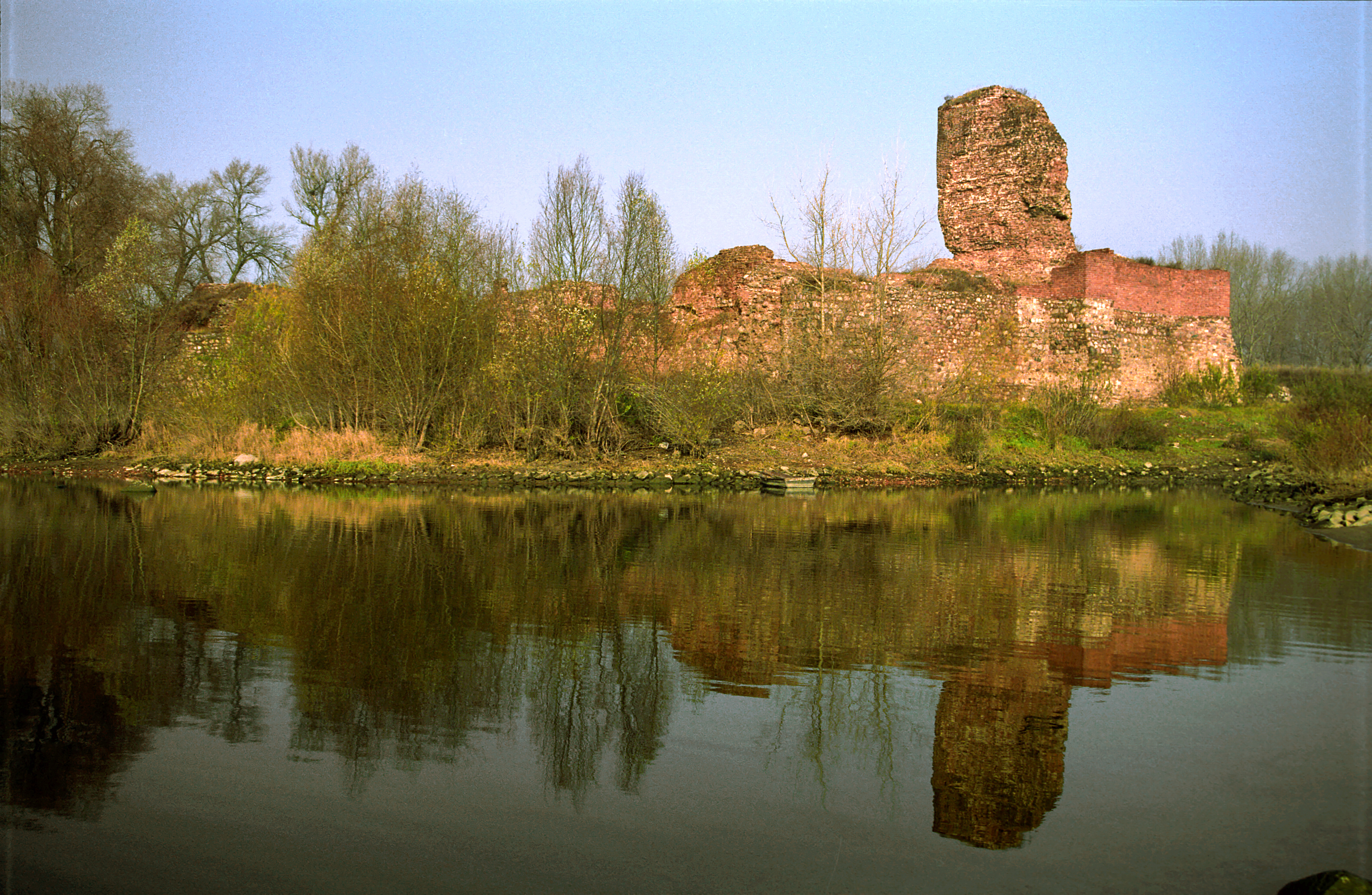 Poland, Bobrowniki Castle